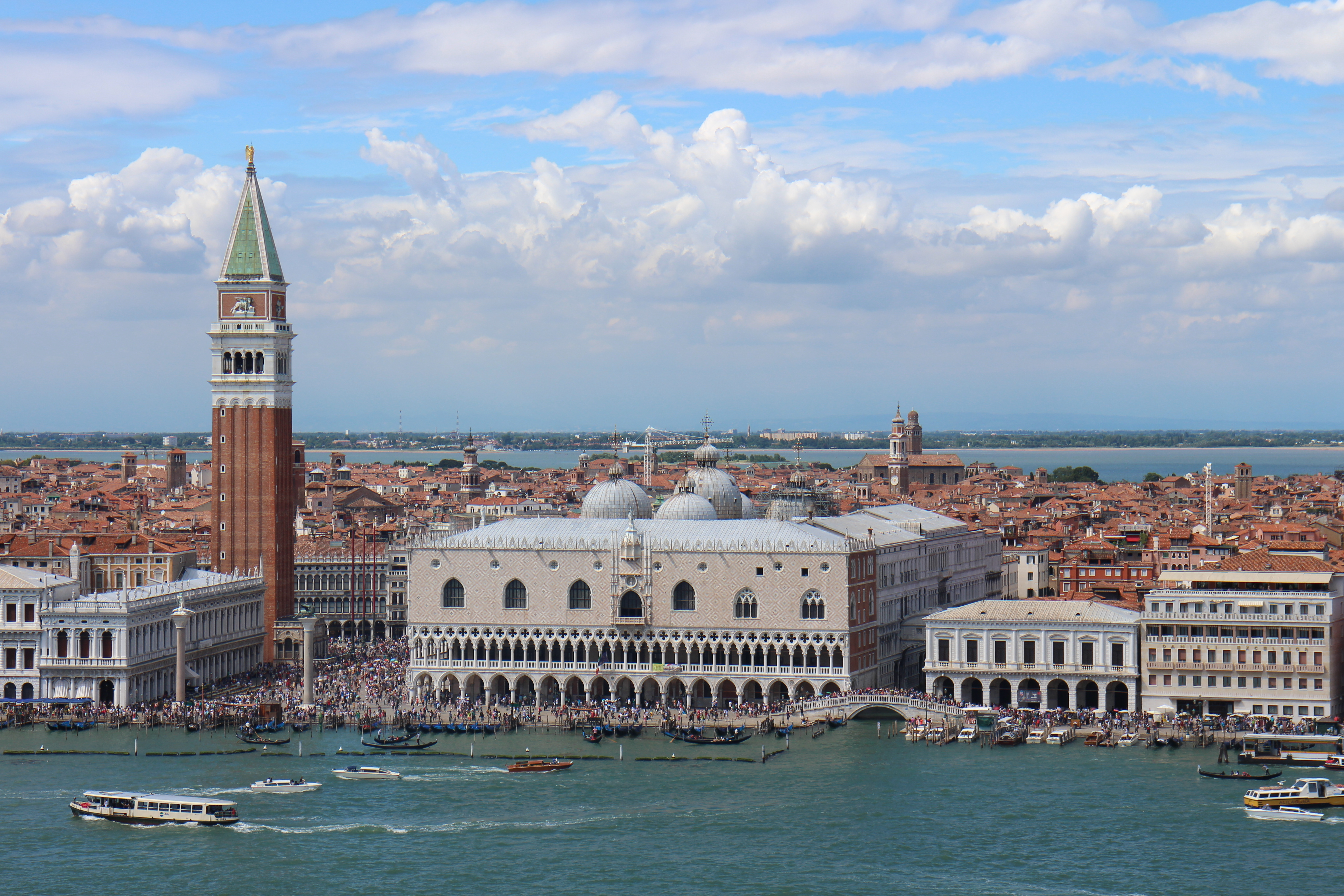 Views from the Campanile of Basilica di San Giorgio Maggiore (Venice)